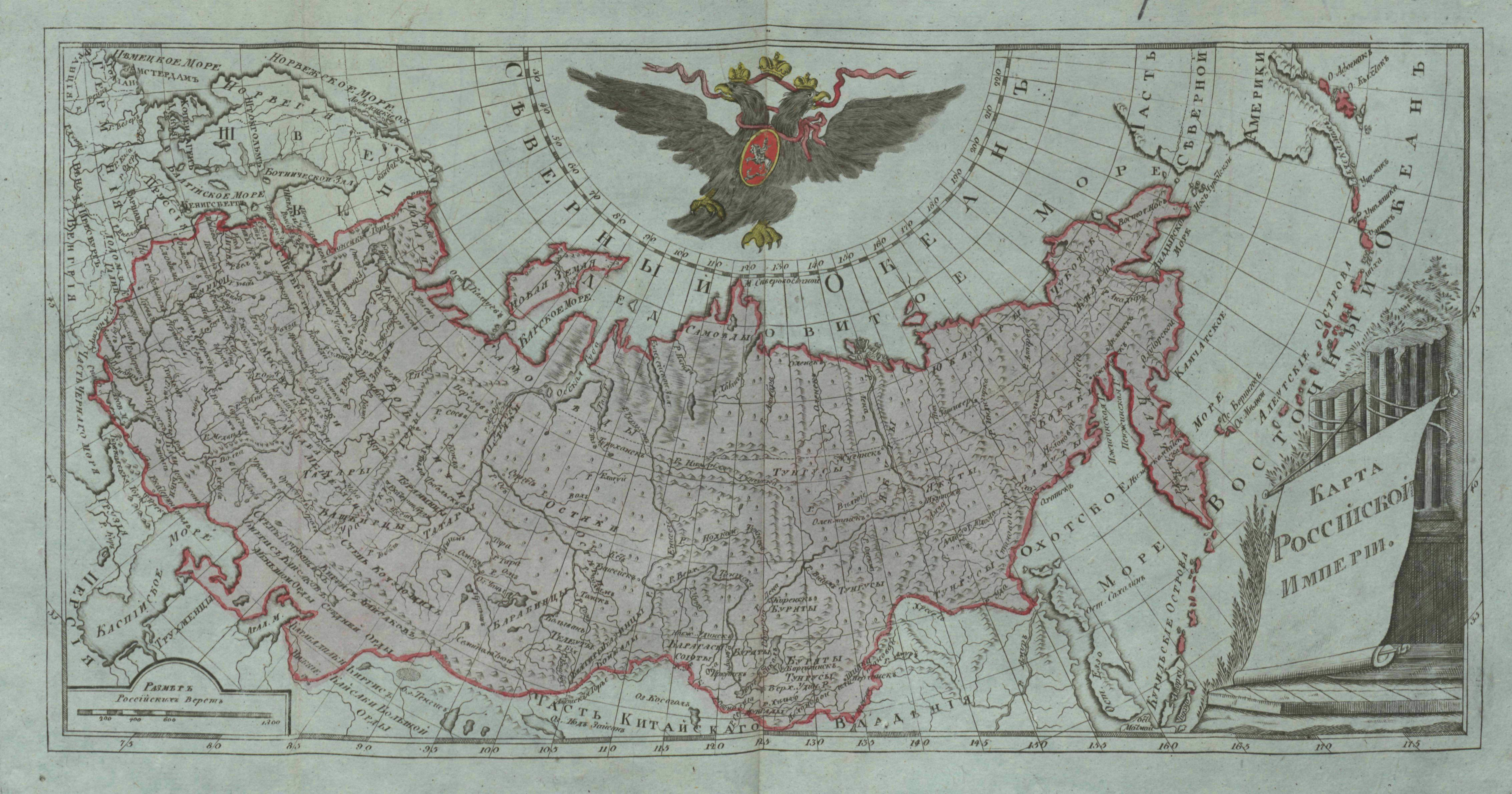 Small atlas of the Russian Empire (1796). Map of the Russian Empire (map 1).